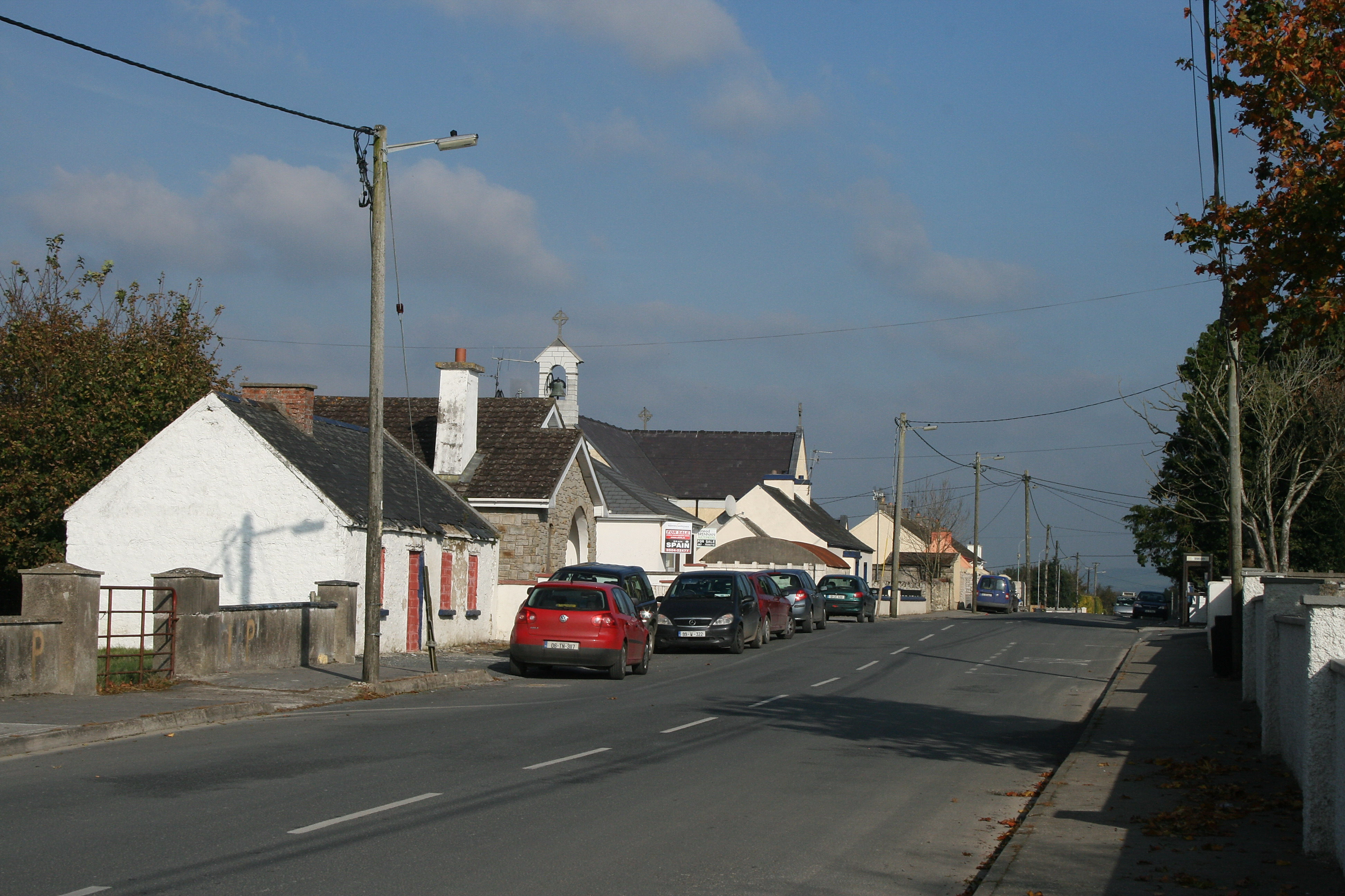 Gortnahoo, County Tipperary, near to Gortnahoo, Rathbeg Bridge and Tranagh, Tipperary, Ireland. On the R689.